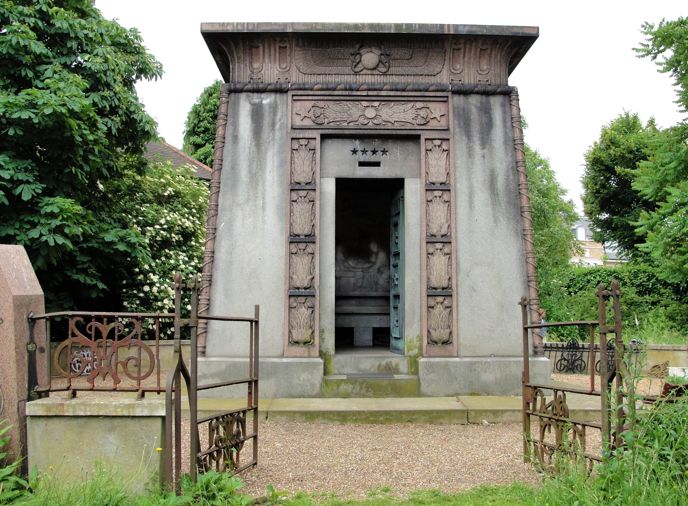 Exterior of Kilmorey Mausoleum, St Margarets,Richmond on Thames, Surrey